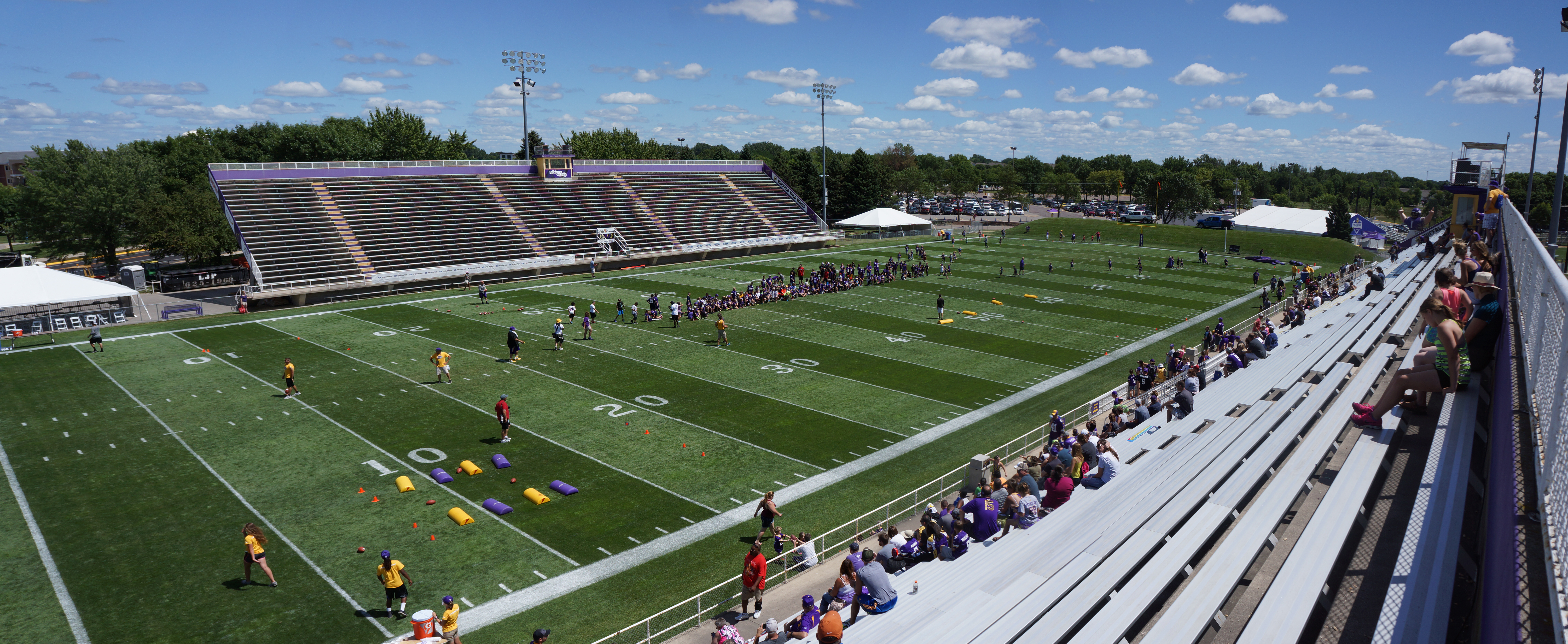 This picture is a view of Blakeslee Stadium from the stands on the Minnesota State University, Mankato campus.